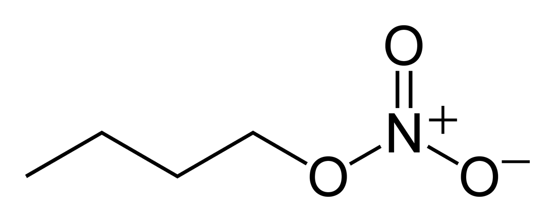 Skeletal formula of the butyl nitrate molecule, C4H9NO3. Structure drawn in ChemDraw Ultra 11.0.